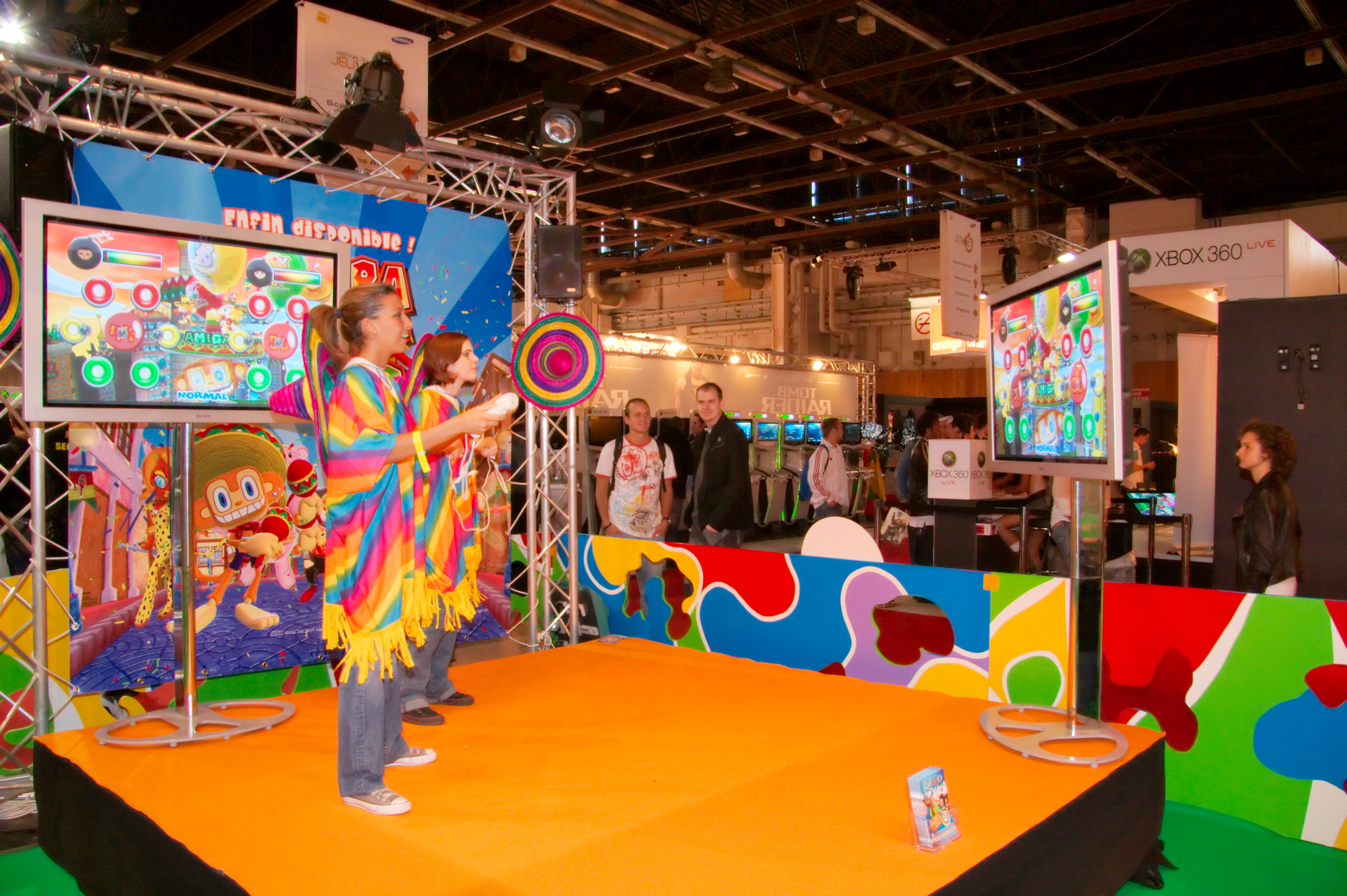 Festival du jeu vidéo 2008 (video game festival) (Paris, France).